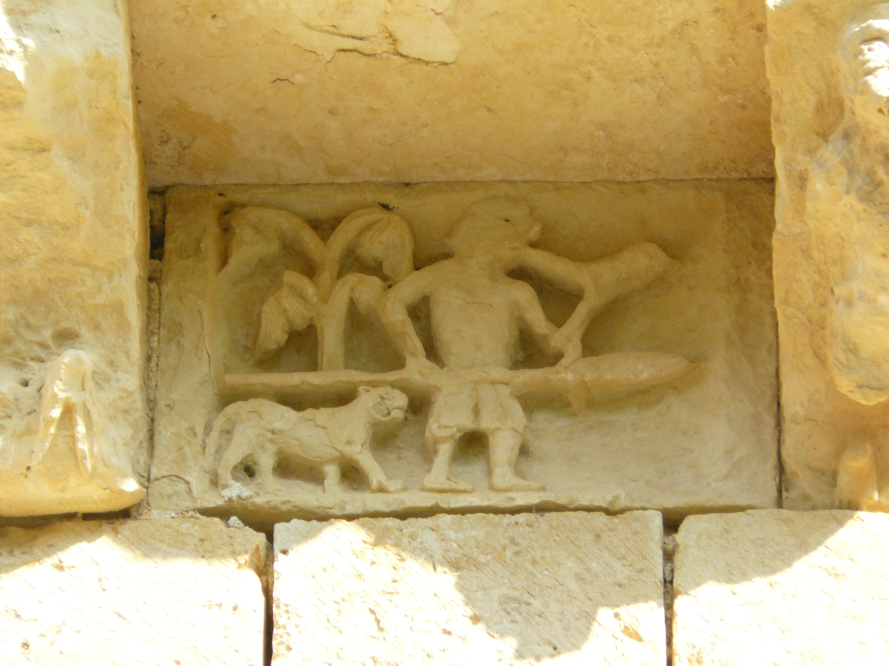 Detail of the frieze showing a hunter blowing a horn and brandishing a spear, Church of the Nativity of the Virgin, Sotillo, Segovia (Spain).